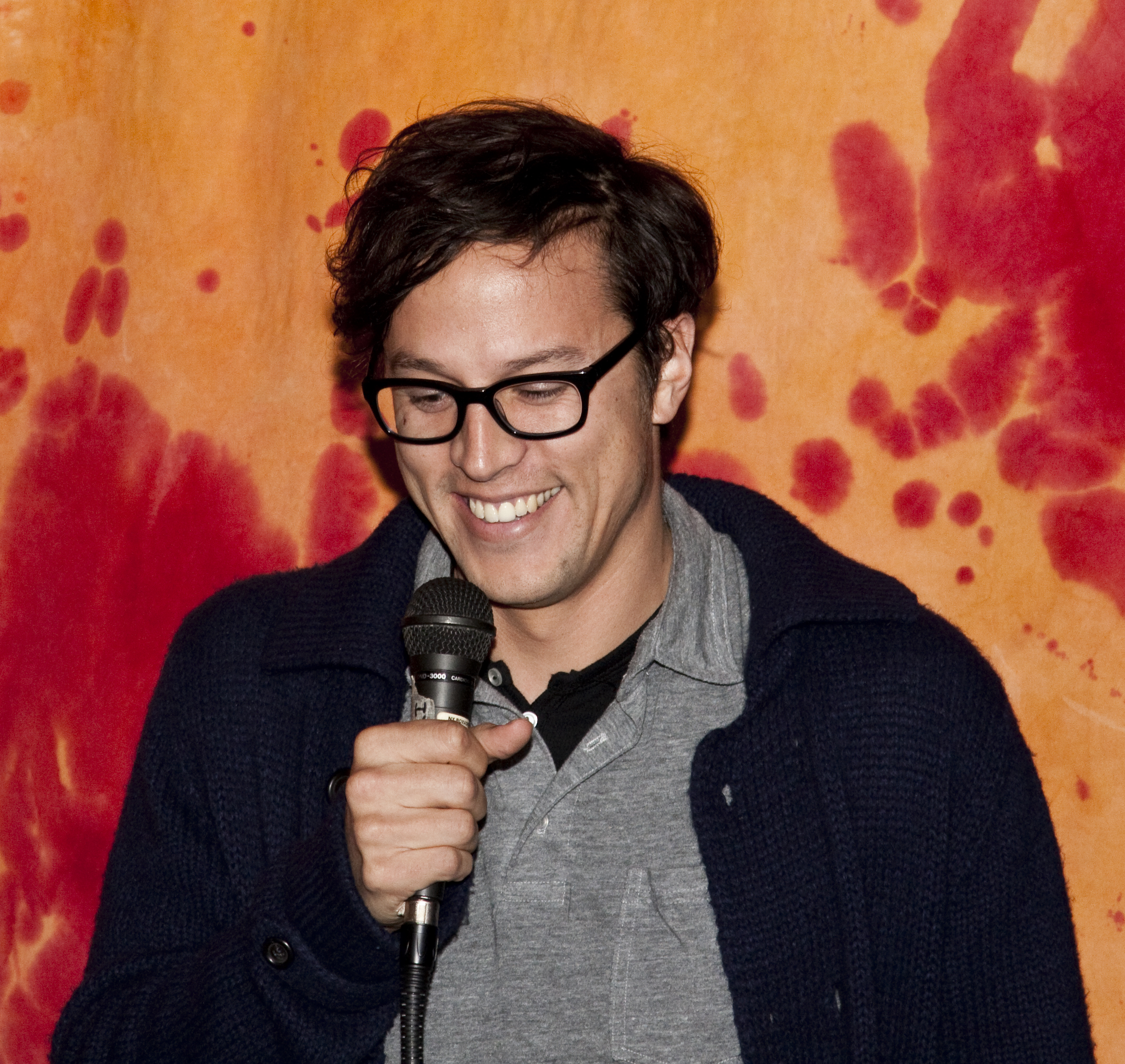 Cary Fukunaga talked about his film "Sin Nombre" in 2009.